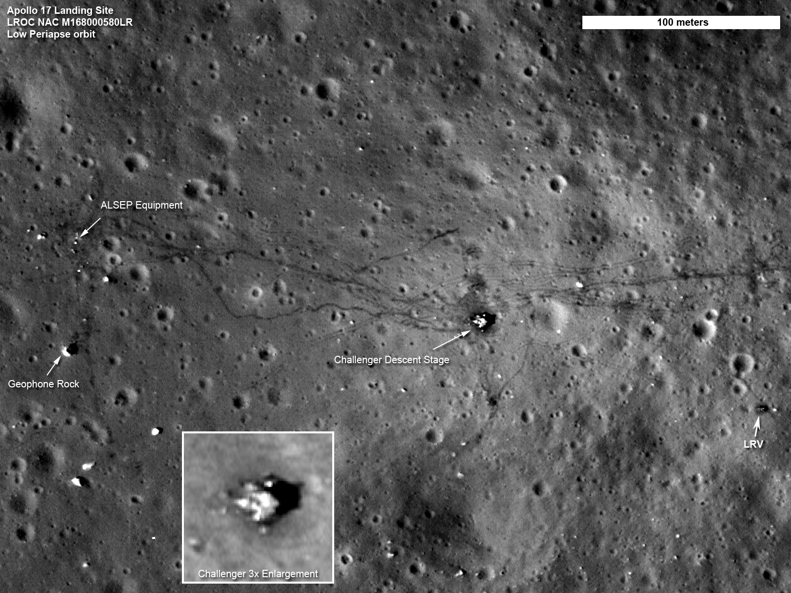 Labeled version of image taken by the LRO of the area around the Apollo 17 landing site